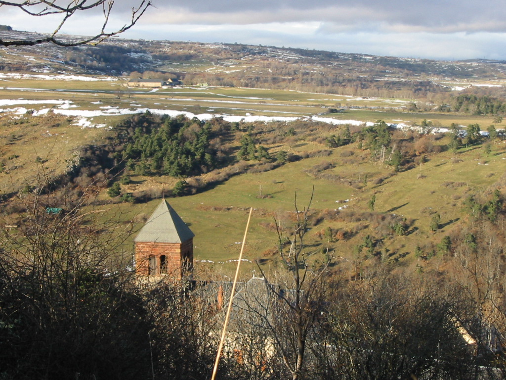 Church of Chapelle Marcousse